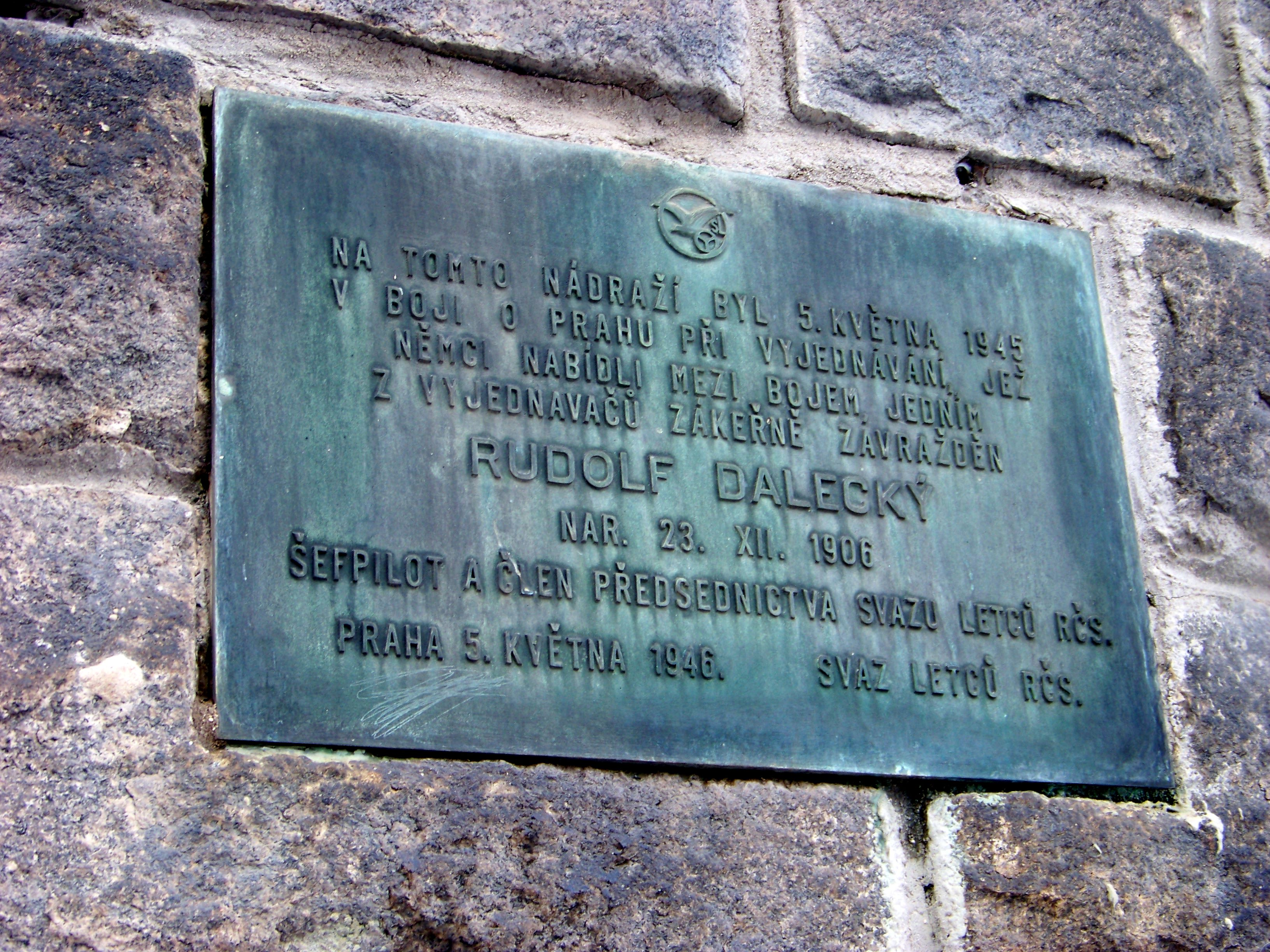 Prague-Vysočany, the Czech Republic. A train station, from Paříkova street. World War II victim plaque.